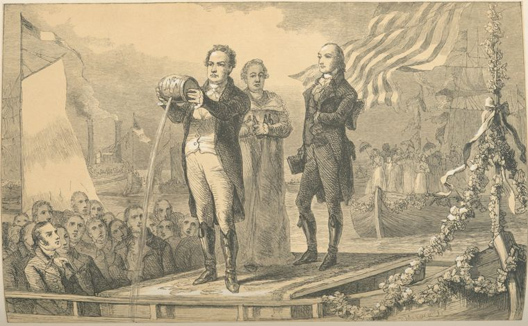 Digital ID: 54047. DeWitt Clinton [mingling the waters of Lake Erie with the Atlantic].. Meeder, Philip -- Wood-engraver. [1826] Notes: Print inserted as extra-illustration. Source: Memoir, prepared at the request of a committee of the Common council of the city of New York, and presented to the mayor of the city, at the celebration of the completion of the New York canals. ( more info ) Repository: The New York Public Library. Print Collection, Miriam and Ira D. Wallach Division of Art, Prints and Photographs. See more information about this image and others at NYPL Digital Gallery . Persistent URL: Rights Info: No known copyright restrictions; may be subject to third party rights (for more information, click here )